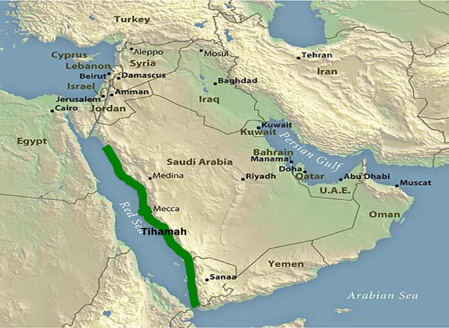 A map of Tihamah region of the western Arabian Peninsula